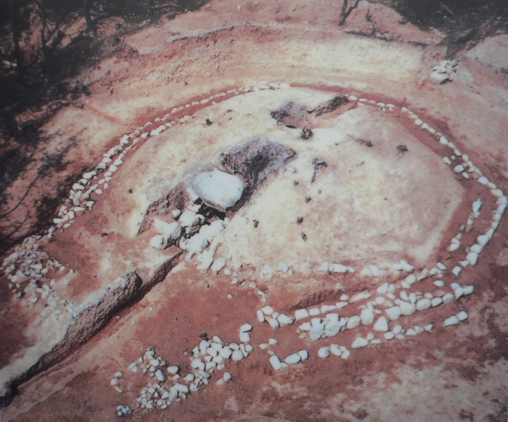 Nakayamashouen Kohun (Barrow) at Hyōgo Prefecture in Japan.